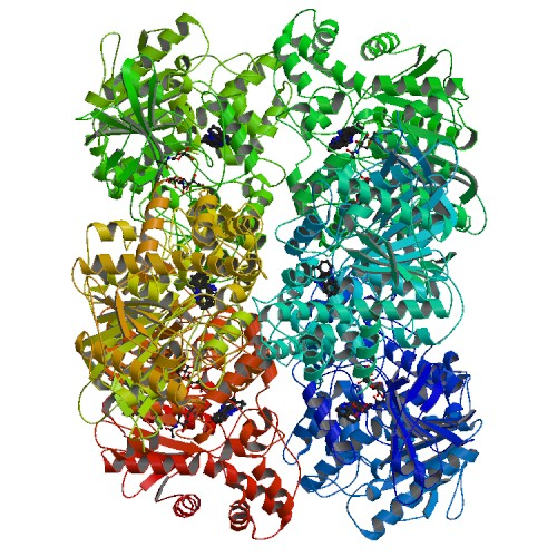 Crystal Structure of Human Carboxylesterase 1 Complexed with the Alzheimer's Drug Tacrine